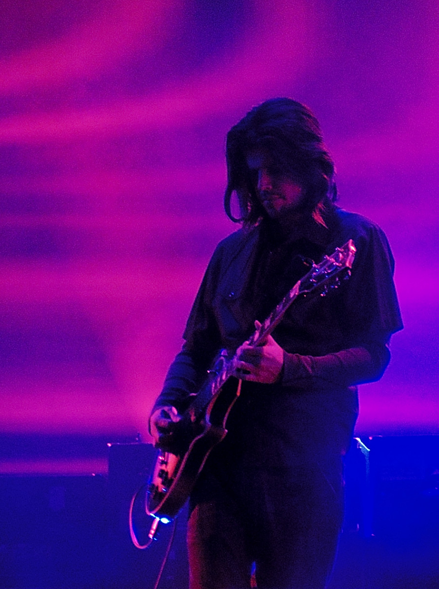 Adam Jones performing with Tool at the Roskilde festival in 2006